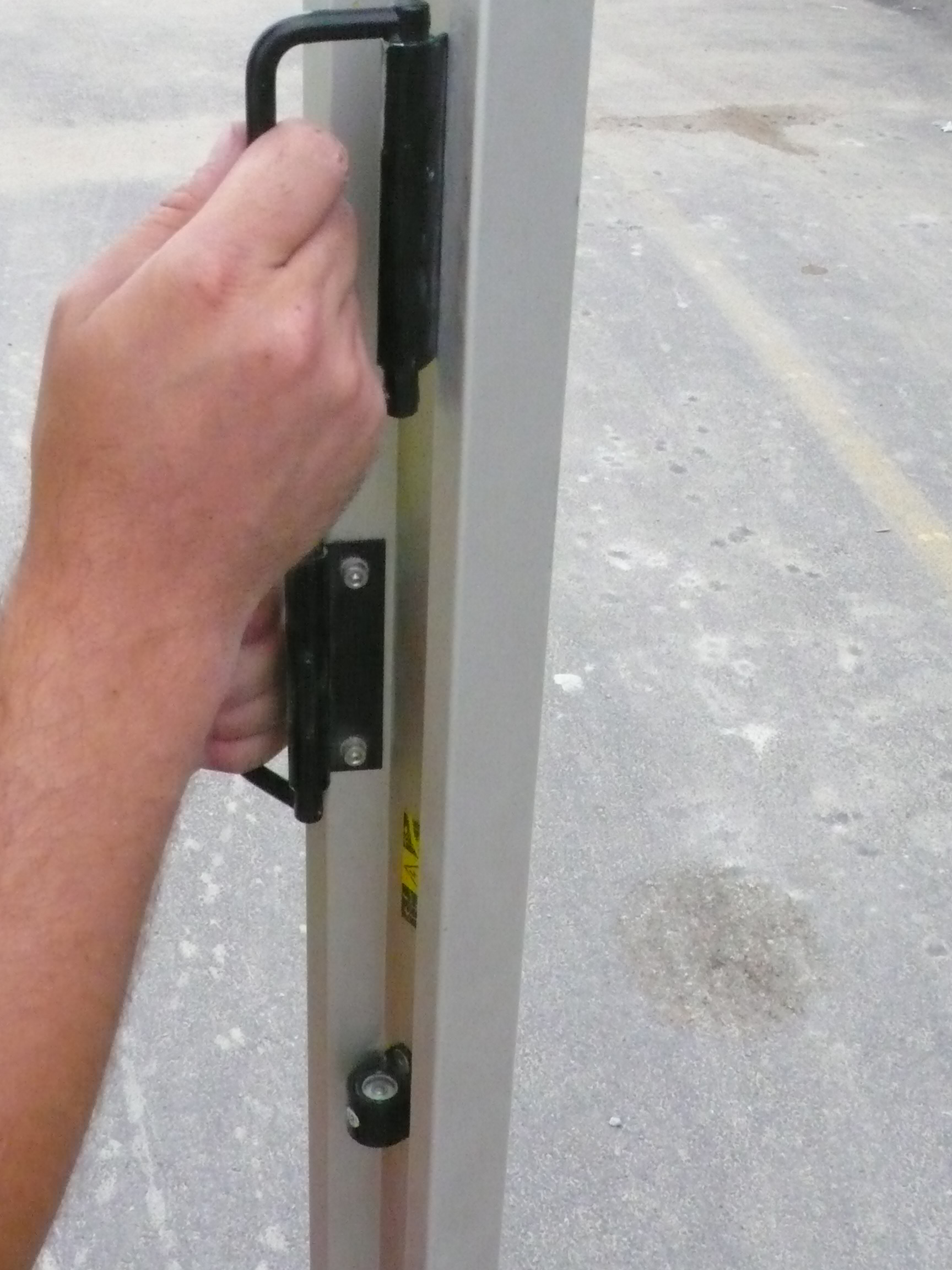 3 meters Leica invar level staff, with spherical spirit level.